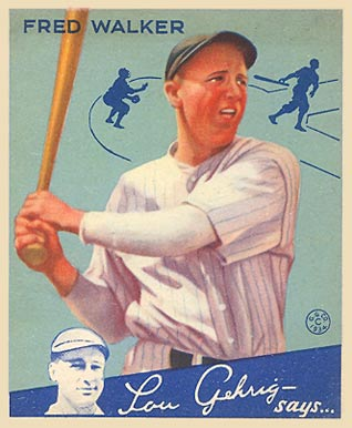 1934 Goudey baseball card of Fred "Dixie" Walker of the New York Yankees #39. PD-not-renewed.